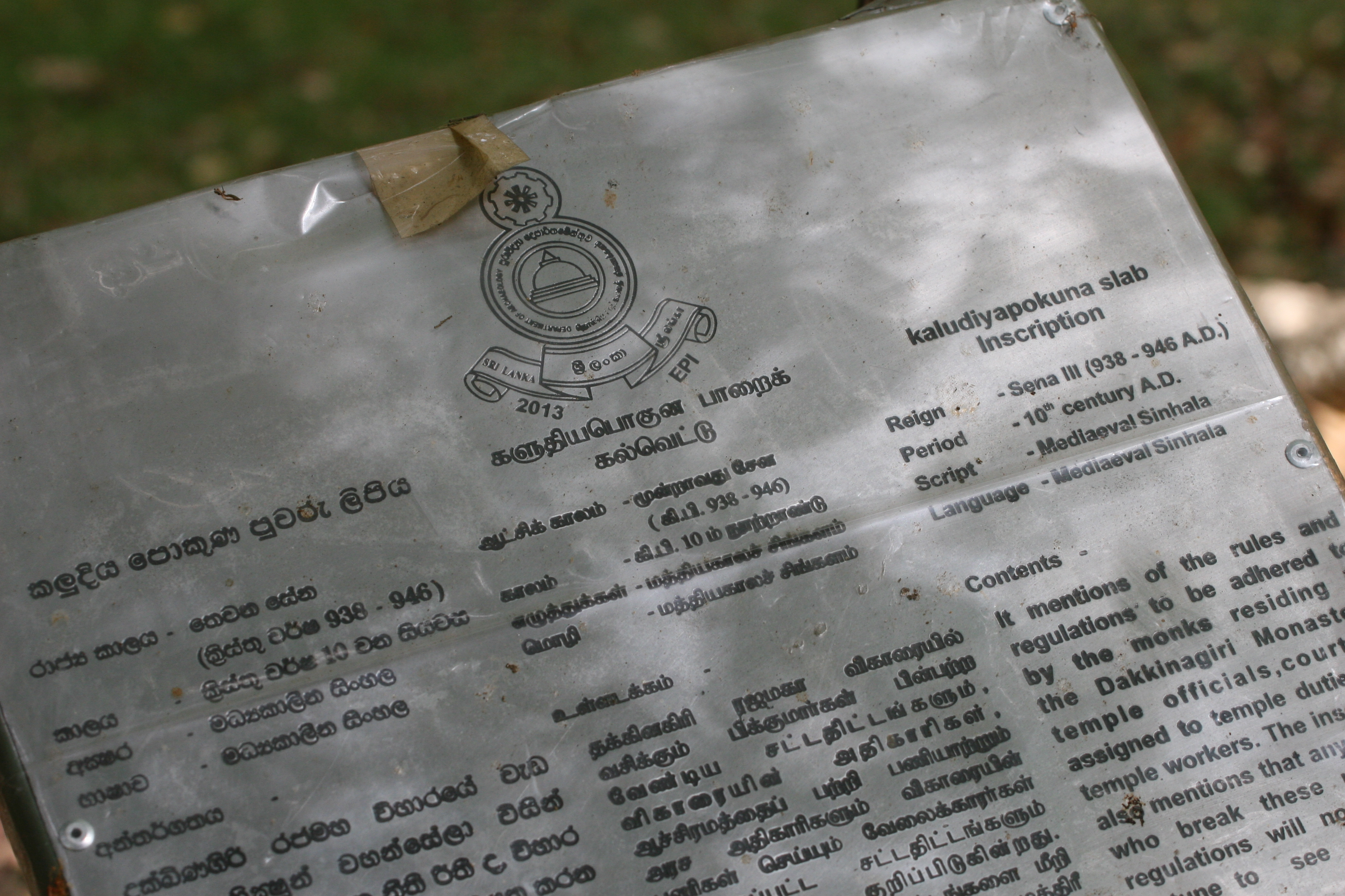 Slab details